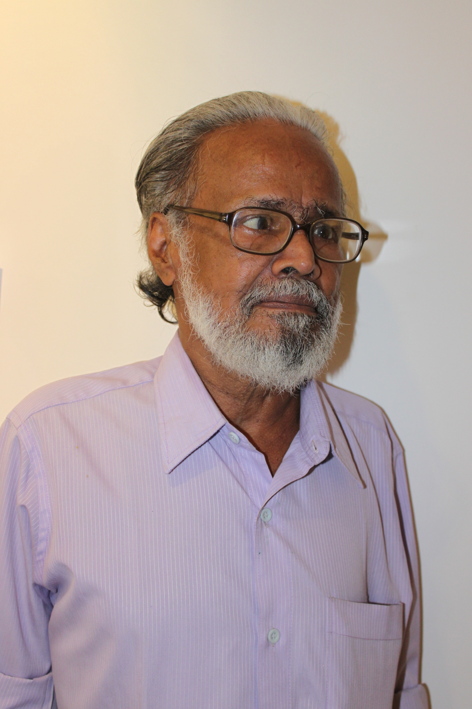 C.N.Karunakaran